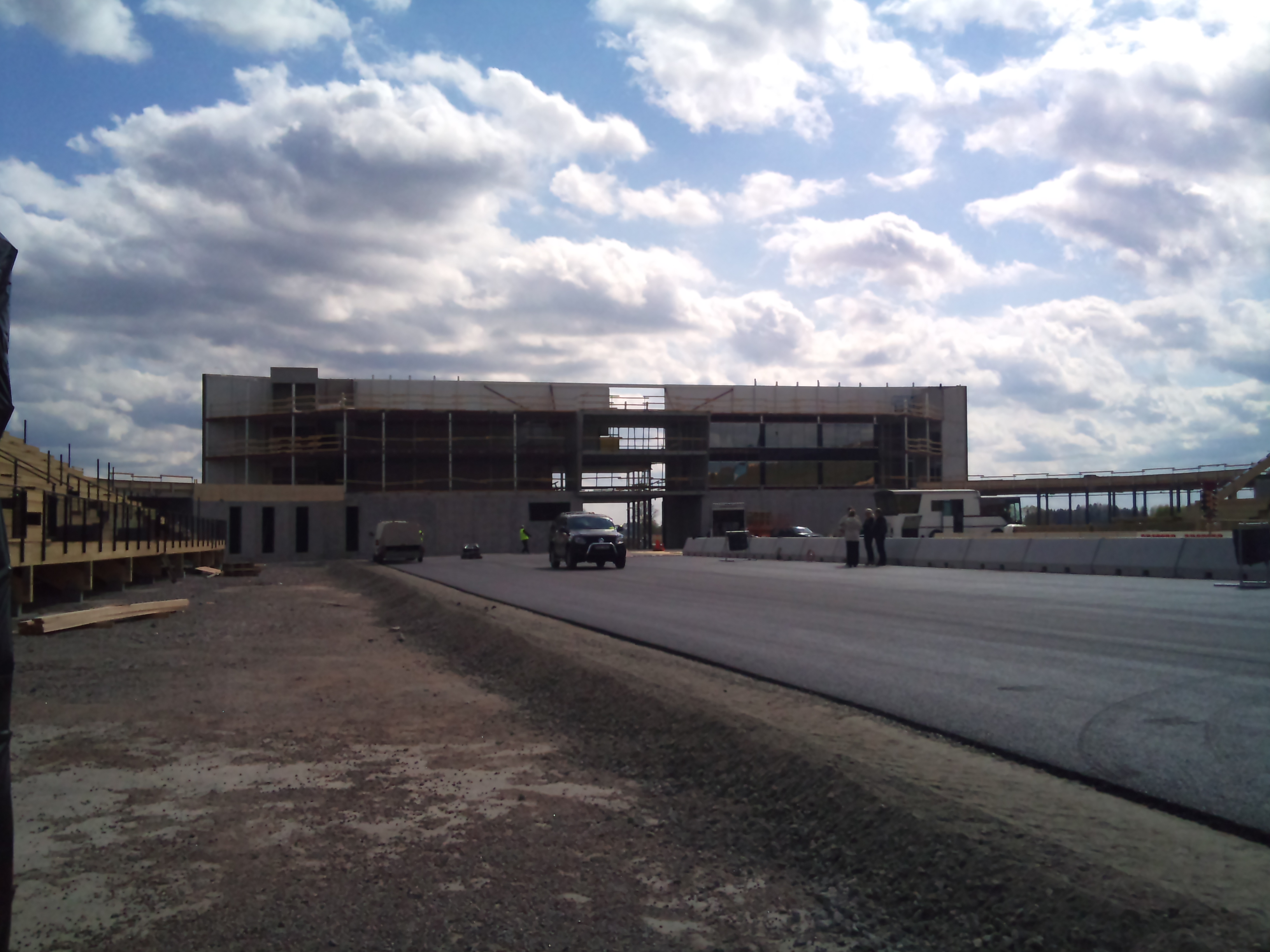 Tierp Arena. 6 May 2011